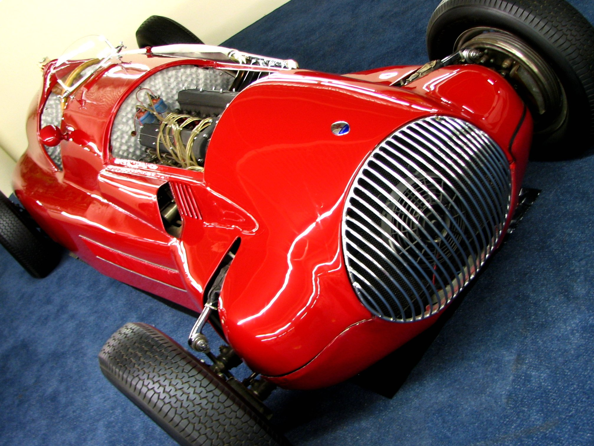 1948 EBS Maserati Monoposto race car aka "The Battleship" - The Auto Collections at the Imperial Palace.